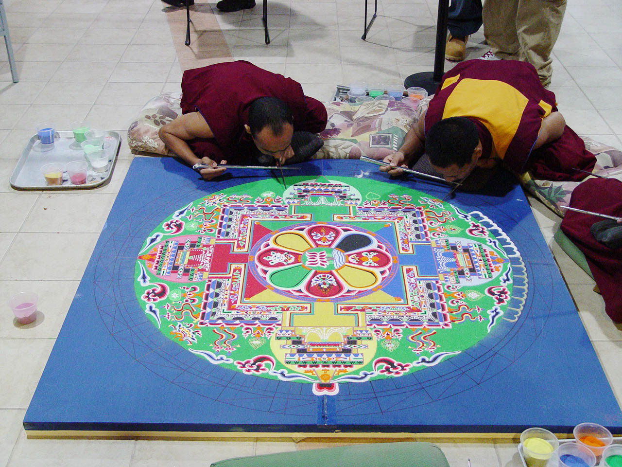 Monks working on Sand Mandala at Nashua High School north.